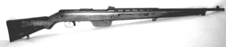 Italian WWII era semi automatic rifle